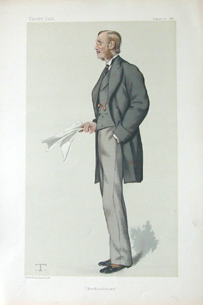 Caricature of Earl Percy. Caption read "Northumberland".